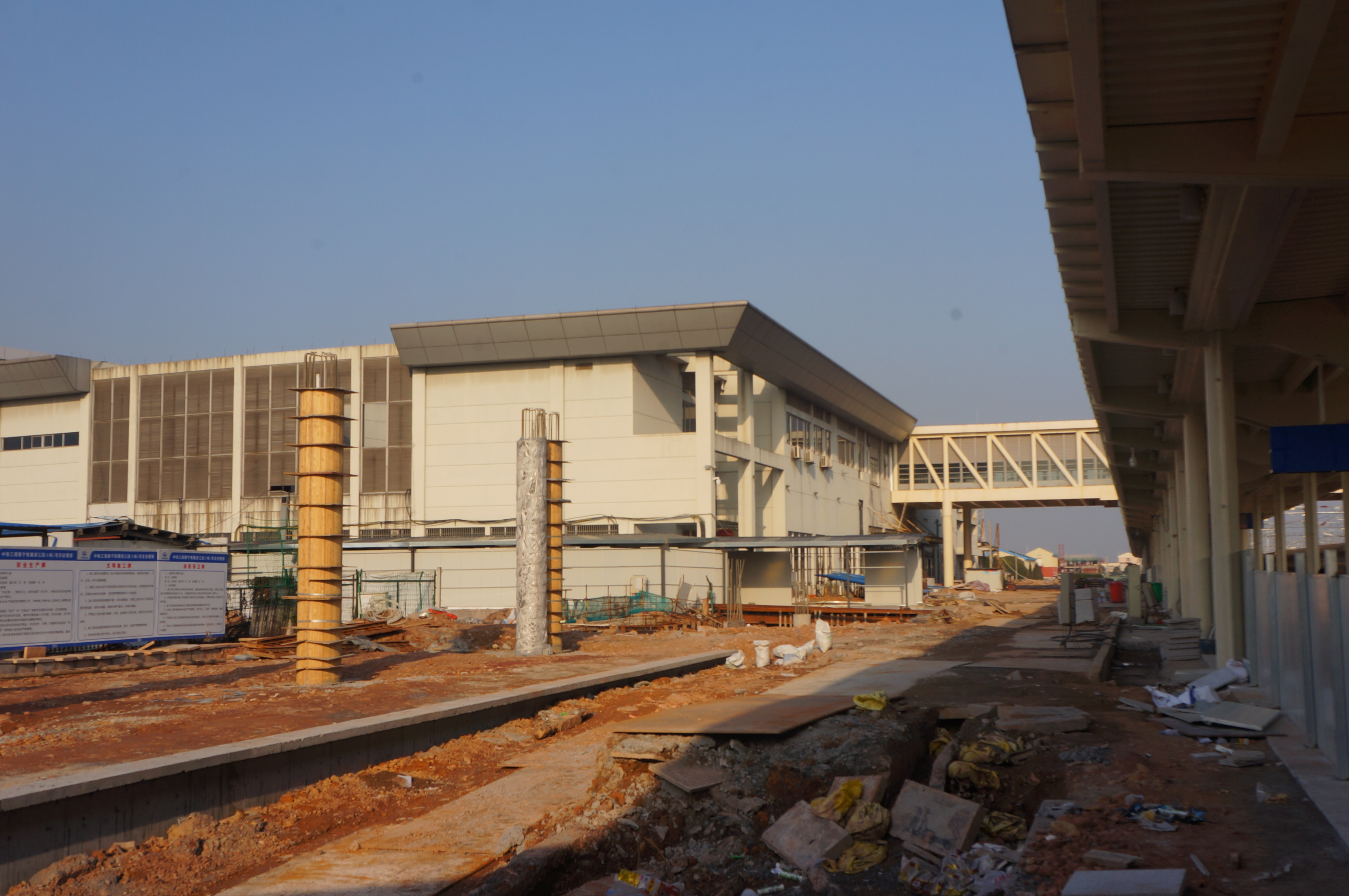 201701 Reserved Yard of Quzhou Station